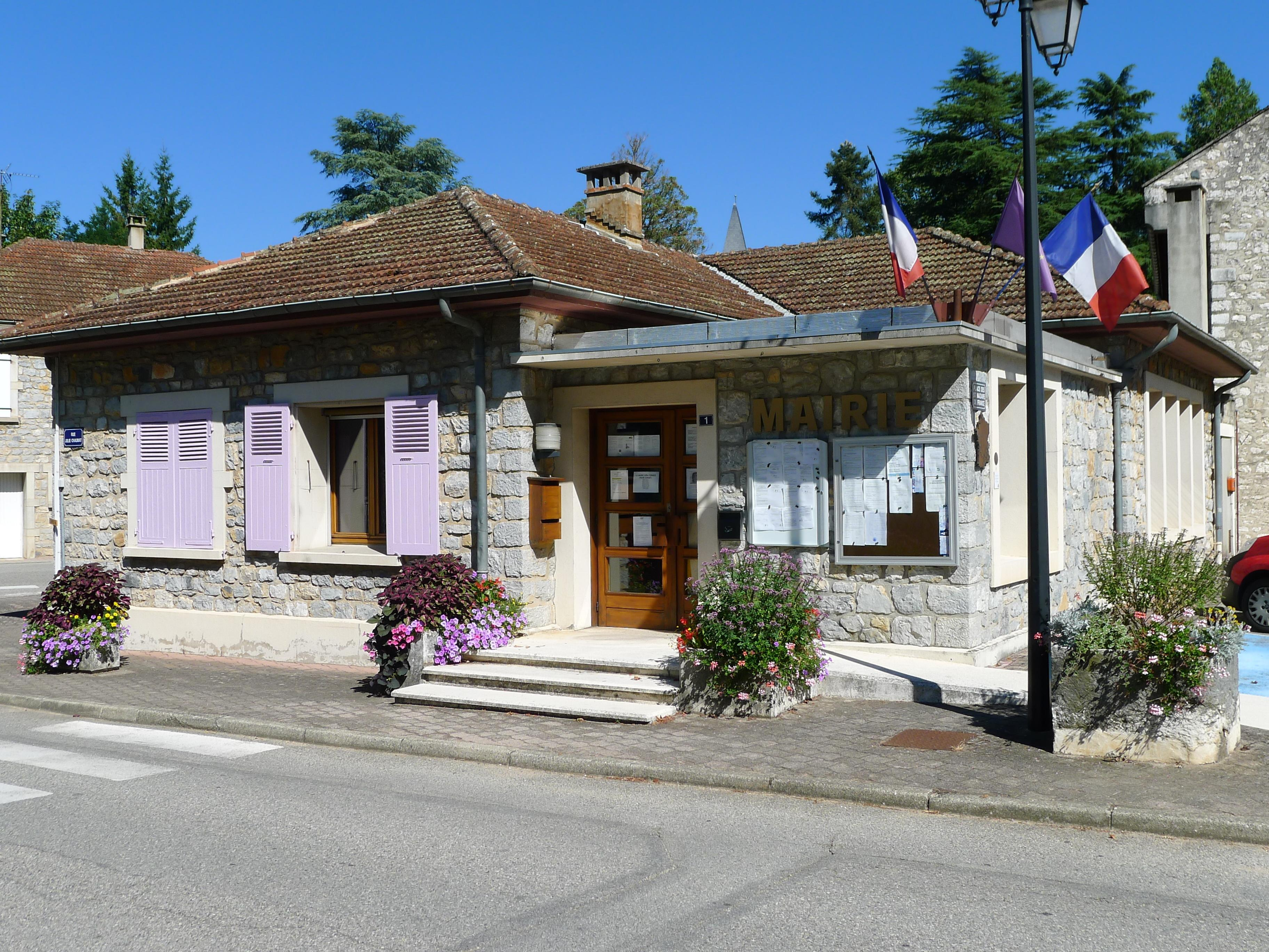 Town hall of Saint-Nazaire-en-Royans Drôme - France